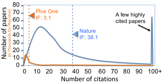 citation distribution for articles from Nature and Plos One, together with their respective impact factors